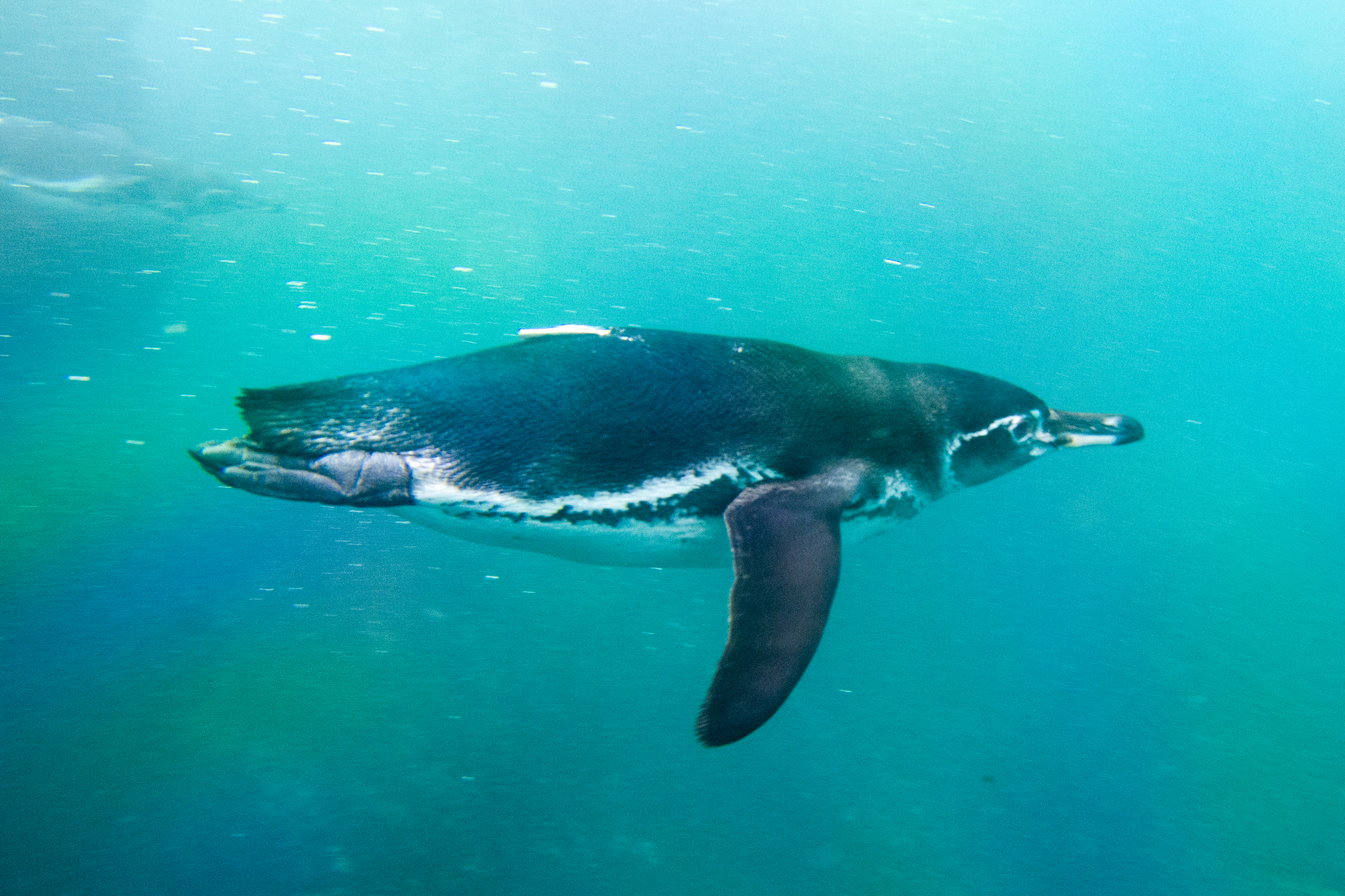 Galapagos penguin at Isabela